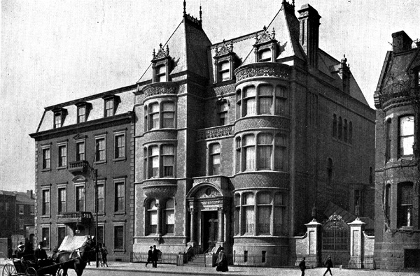 John G. Johnson Museum, 510 South Broad Street, Philadelphia, Pennsylvania. Architect Frank Furness designed the original house (1872-74) for owner Bloomfield H. Moore. Architect Charles M. Burns added the French Renaissance facade (1900) for owner F.T.S. Darley. Johnson lived next door, and purchased the house to exhibit his art collection. The collection was moved to the Philadelphia Museum of Art in June 1933. The house was demolished in the 1950s.